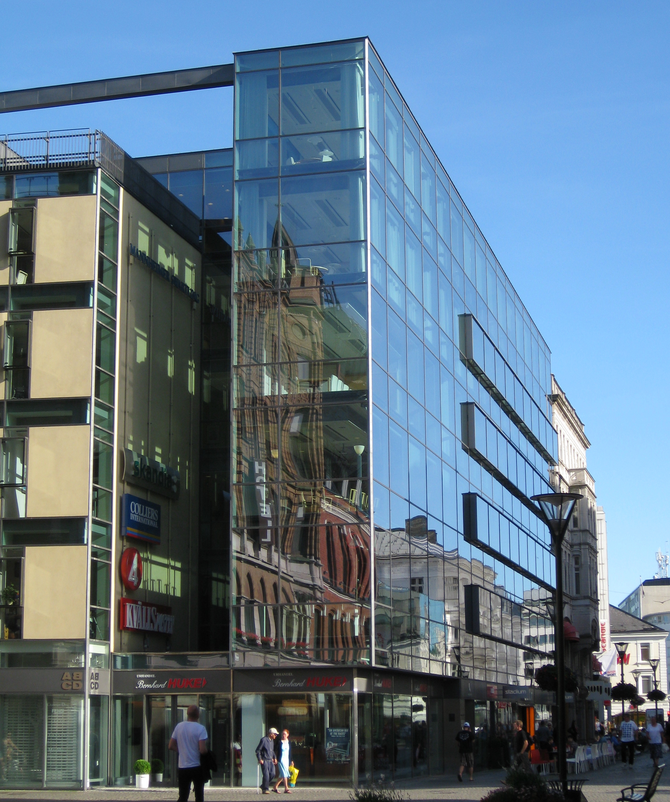 Baltzar City shopping mall at Södergatan, Malmö, Sweden